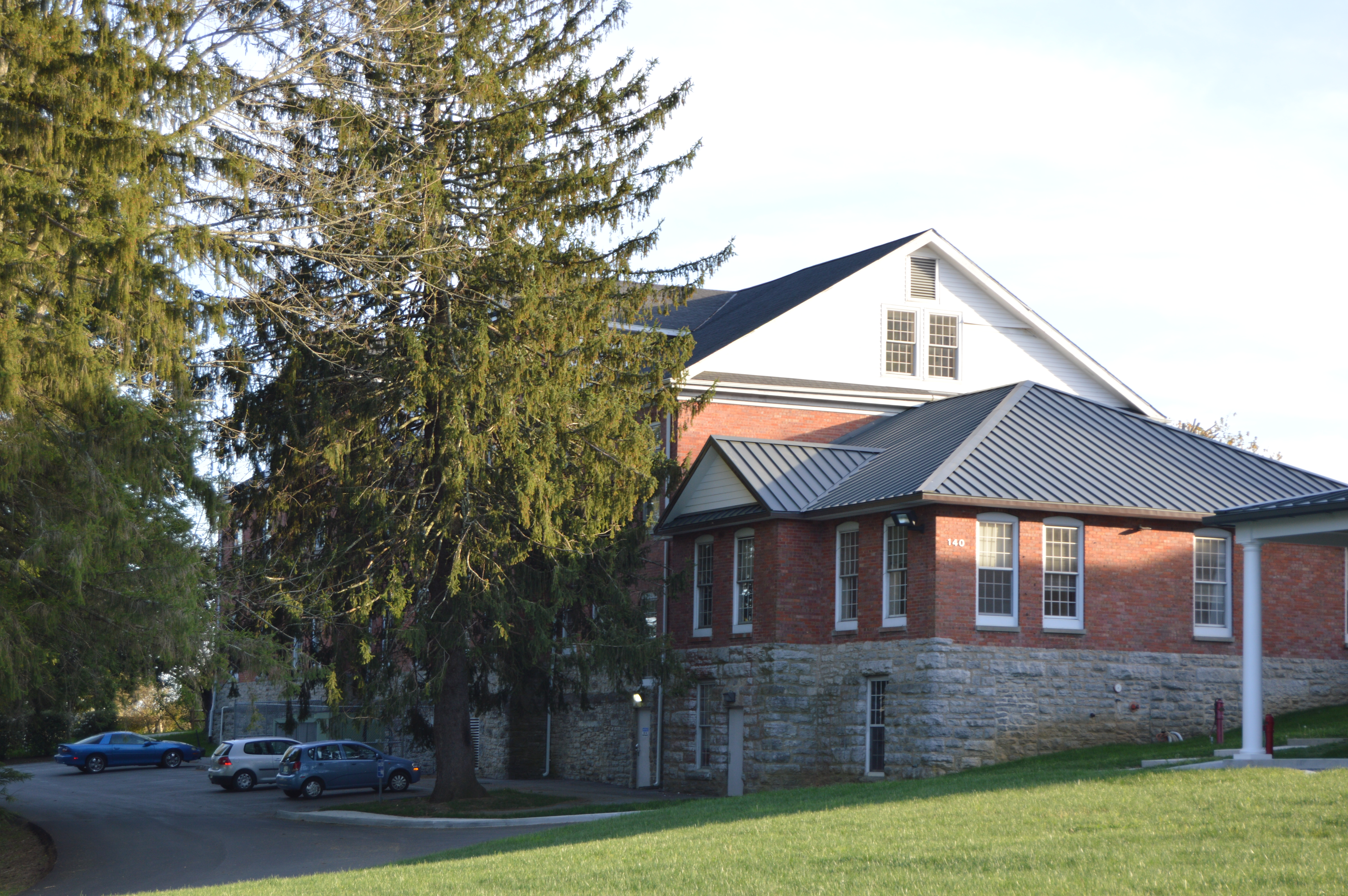 Eastern side of Grant-Lee Hall on the campus of Lincoln Memorial University in Harrogate, Tennessee, United States. Built in 1917 as a hotel, it was later converted into a dormitory, and it is listed on the National Register of Historic Places.